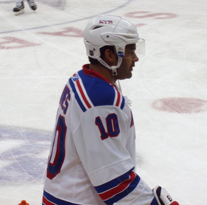 Nigel Dawes of the New York Rangers warms up at the Staples Center in Los Angeles, CA, prior to a game against the Los Angeles Kings.